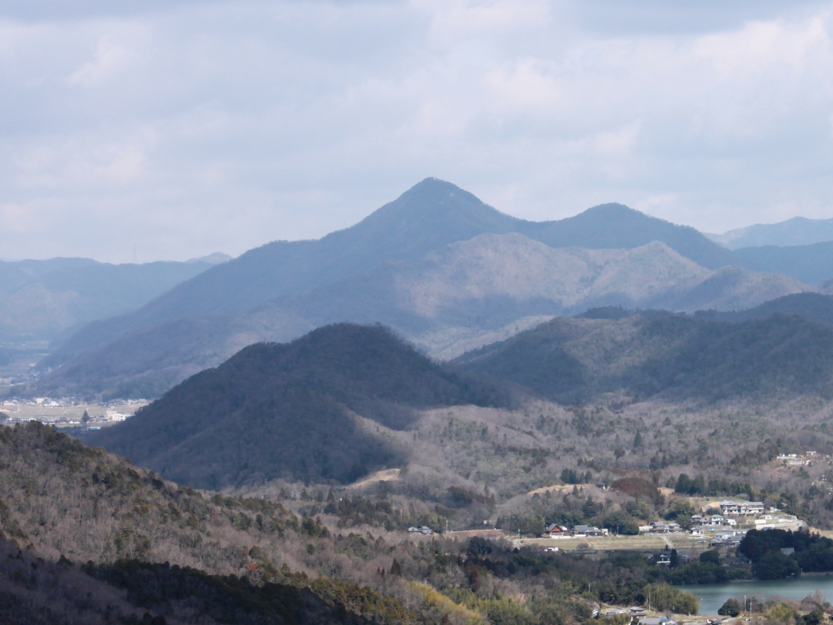 Mount Ofuna (Ofuna-yama) as seen from the south in Sanda, Hyogo Prefecture Japan. Shot at Mount Oiwa (Oiwa-ga-take).